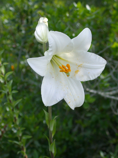 Lilium candidum